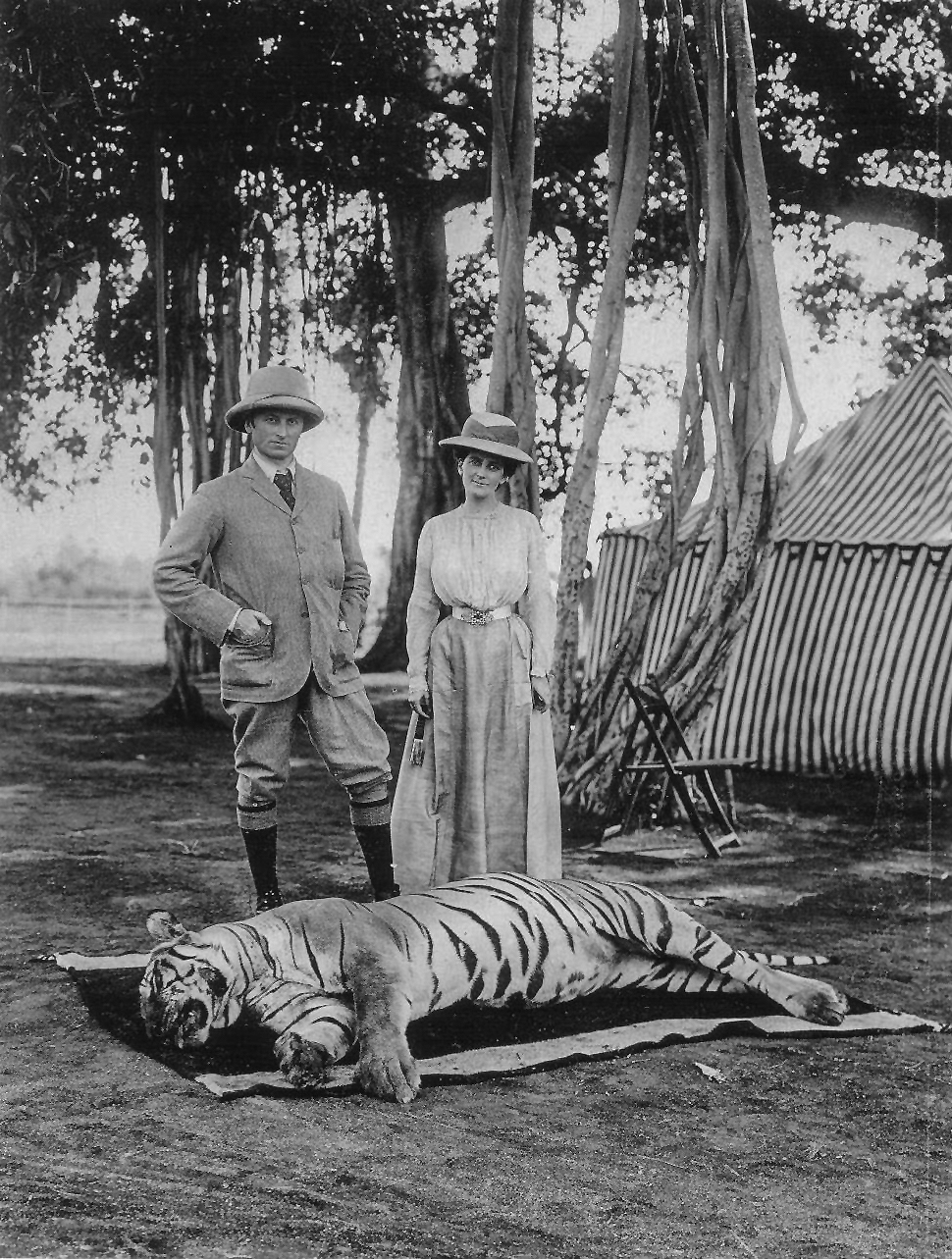 Bengal Tiger hunting by the English upper-class in British India in 1903. This photo shows Lord Curzon, the viceroy of India, posing with his wife, an American heiress to millions, near Hyderabad in April 1903 with his bag. He was an excellent hunter who was particularly fond of tiger hunting.